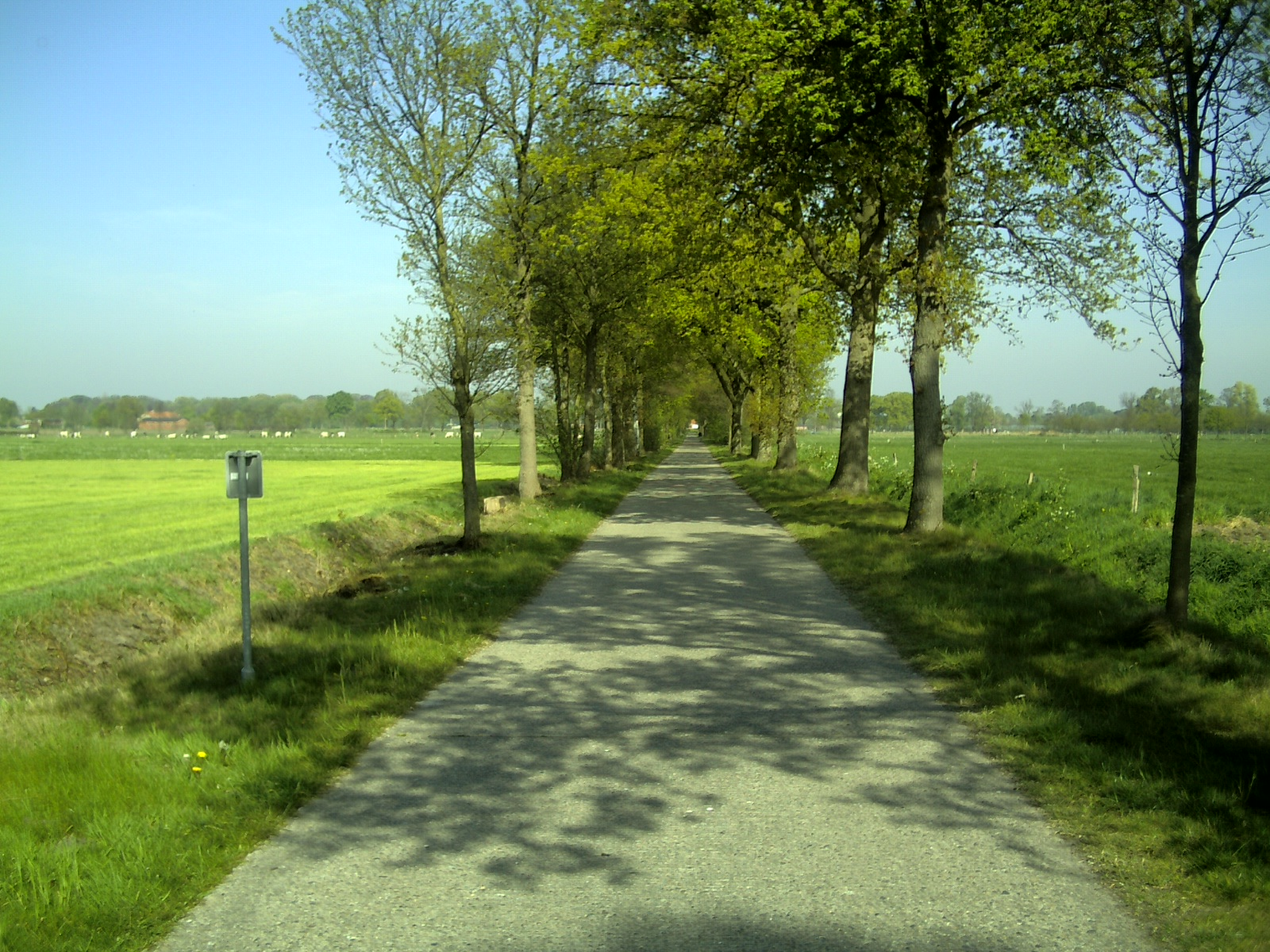 Countryside of Kalmthout, Belgium